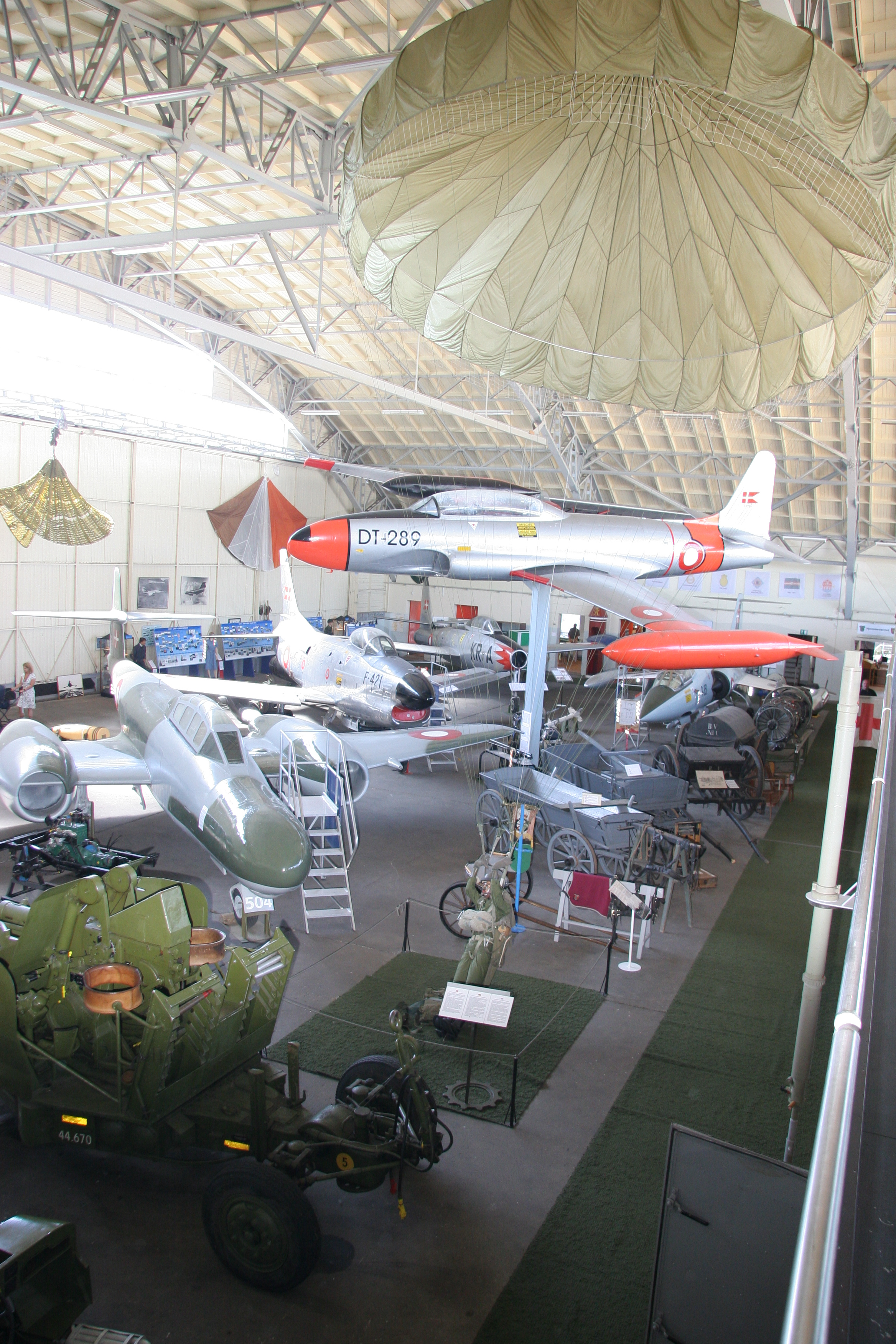 Aircraft in the hangar at Aalborg Defence and Garrison Museum